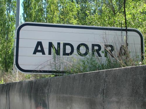 Andorra (town sign)